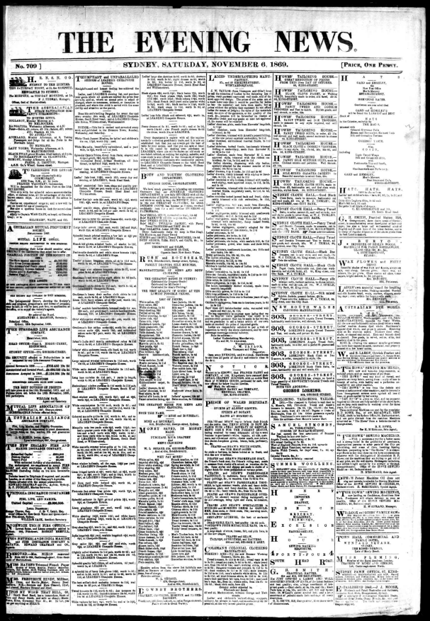 The front page of the Evening News on 6 November 1869.